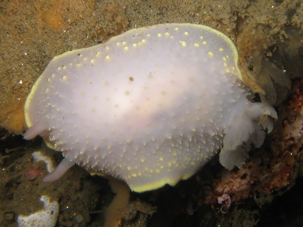 Picture of Acanthodoris hudsoni. Taken in Scripps Canyon, San Diego, California by Magnus Kjaergaard.